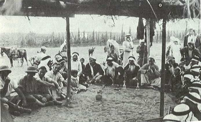 Arab villagers entertaining Jewish settlers who have just consummated the purchase of a tract of land from them. Many of these settlers learned to speak Arabic and took an enlightened interest in Arabic traditions and way of life. This attitude often resulted in mutual respect and trust.